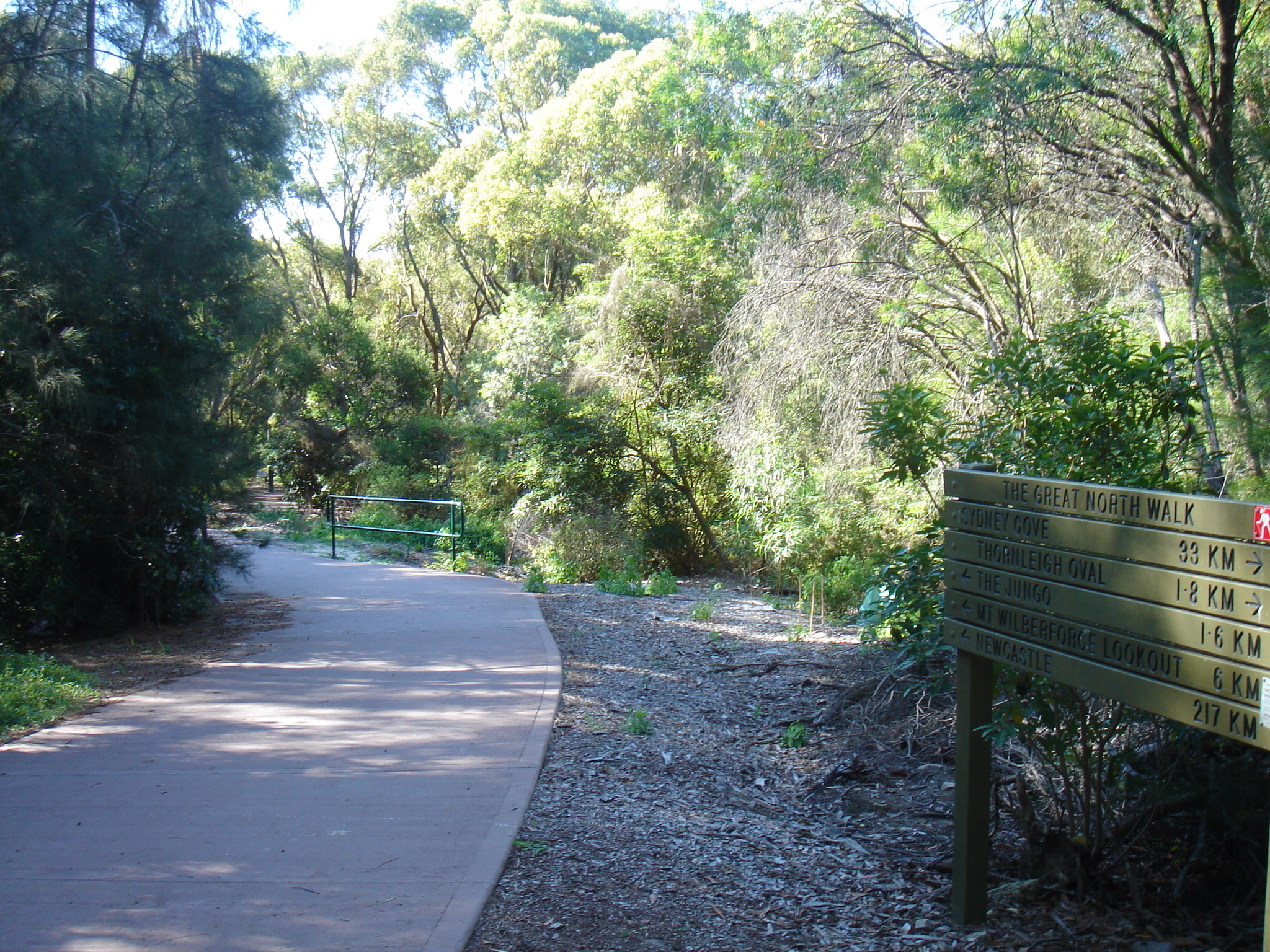 View of Great North Walk at 33 km from Sydney mark. The suburb is Pennant Hills, and the track is shared cycle/pedestrian at this point.